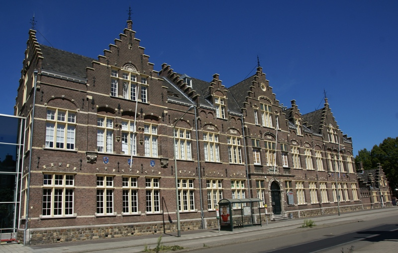 National monument no. 506670 - Sint Maartenslaan 26, Maastricht, The Netherlands.